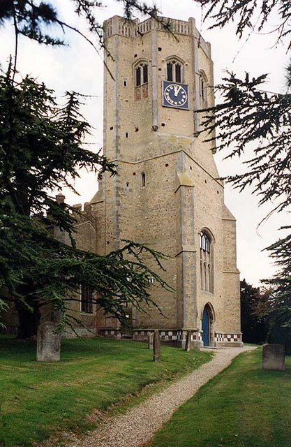 St Cyriac and St Julitta, Swaffham Prior, near to Swaffham Prior, Cambridgeshire, Great Britain.